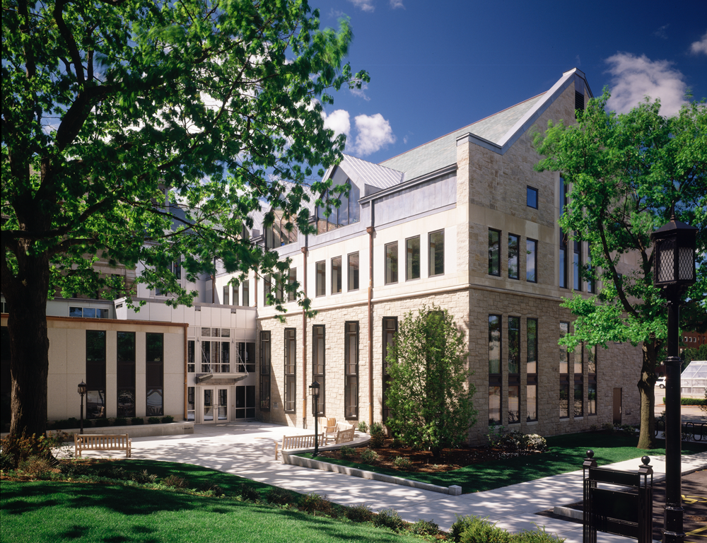 I am the author of this image.